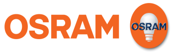 Logo Osram